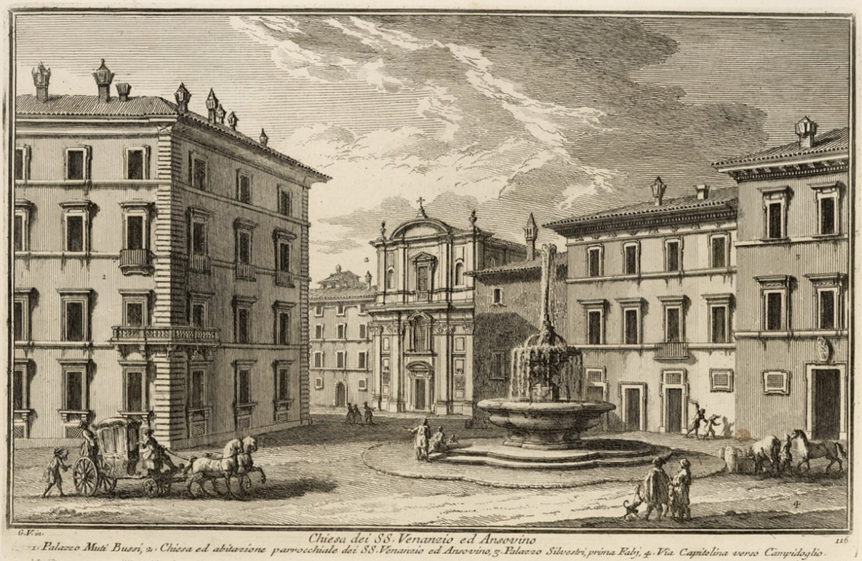 1) Palazzo Muti Bussi; 2) SS. Venanzio ed Ansovino; 3) Palazzo Silvestri; 4) Via Capitolina leading to Campidoglio.